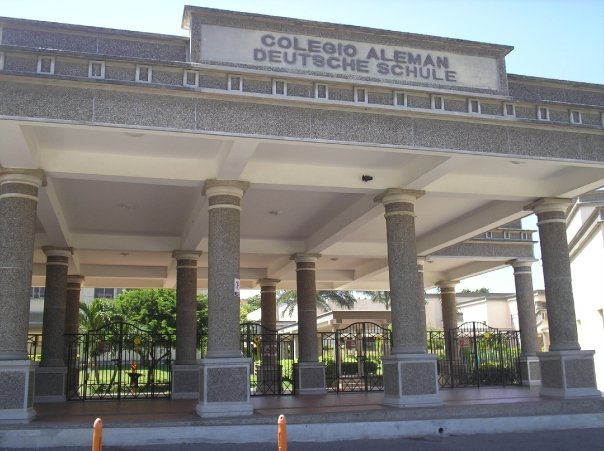 Entrance of the German School of Barranquilla